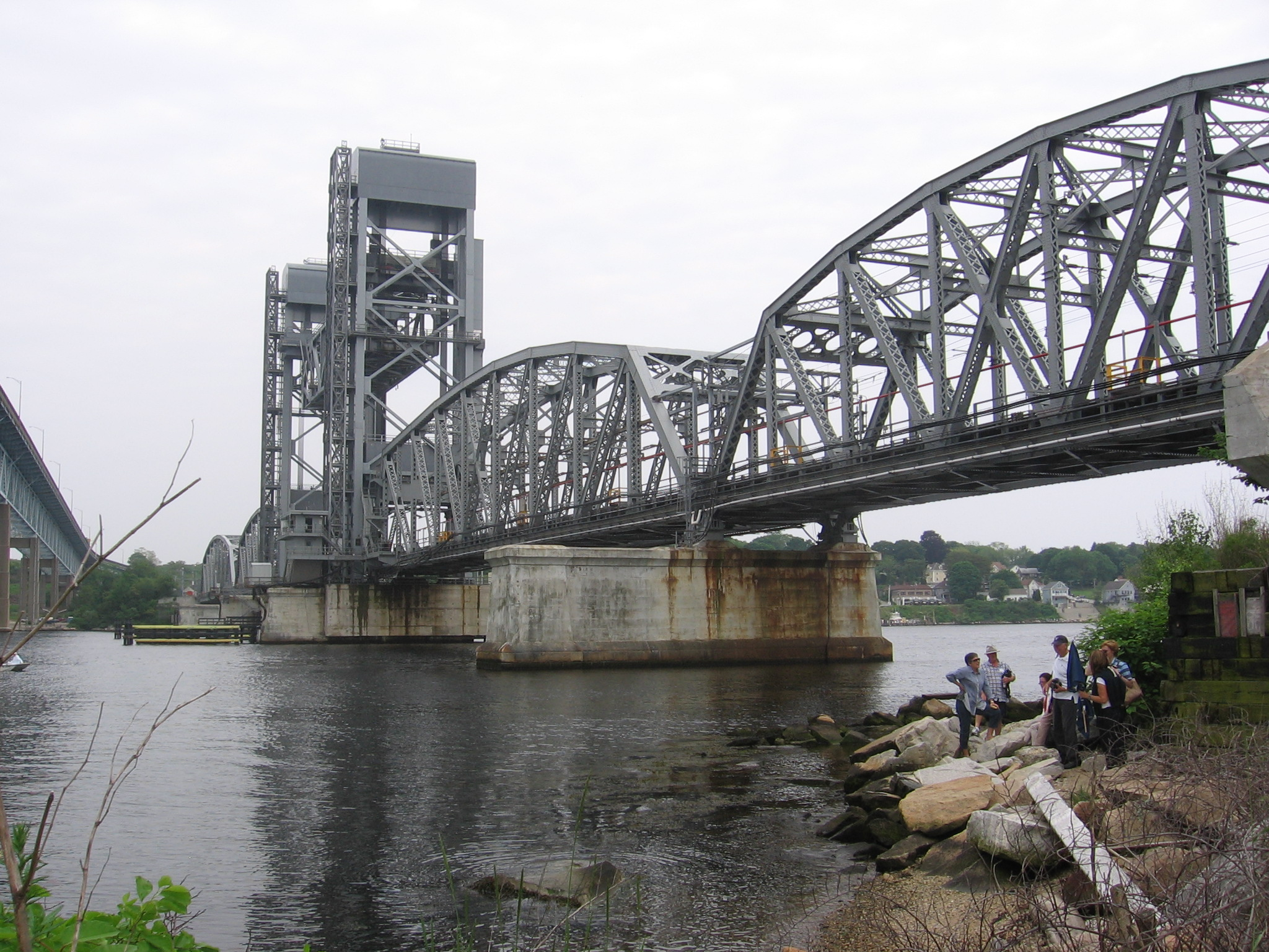 The new (2008) vertical lift bridge that carries the northeast corridor rail line over the Thames River is southeastern Connecticut. Spectators are lining up to watch the finish line of the Harvard-Yale Regatta.